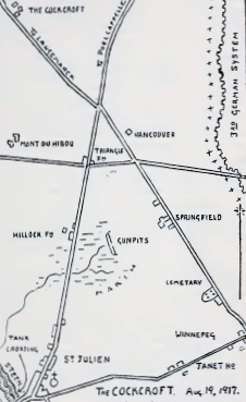 Diagram of the roads north and east of St Julien used by British tanks to attack German strongpoints.